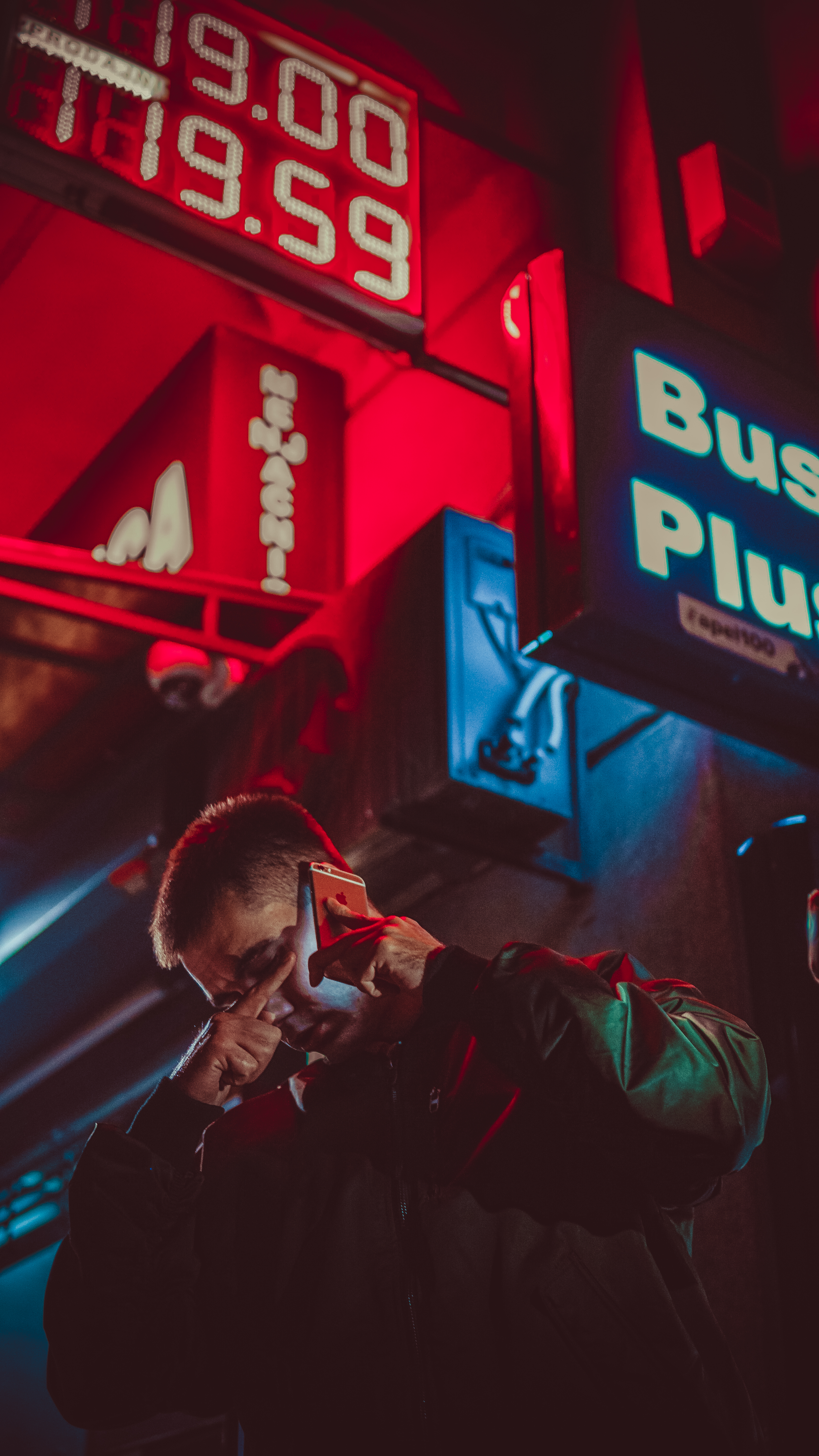 Serbian rapper Branko Kljaić Fox